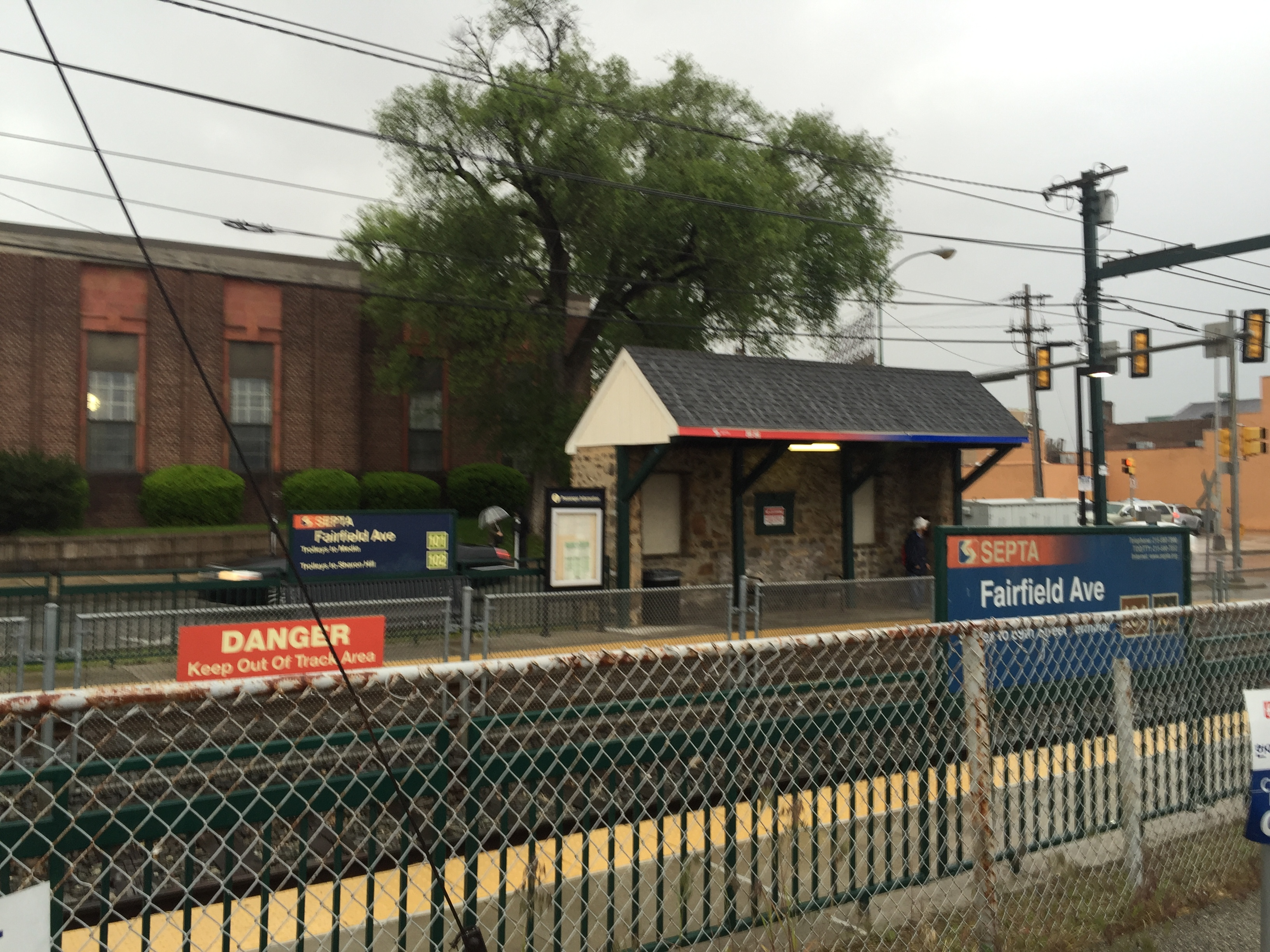 Fairfield Avenue station from my iPhone